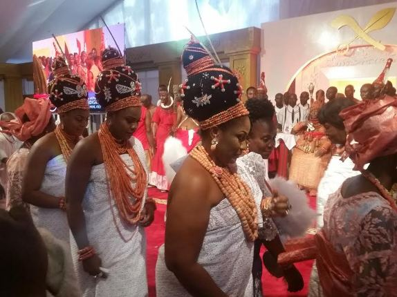 Coronation of the Oba of Benin Kingdom in Nigeria This is an image from Nigeria